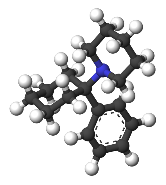 Phencyclidine